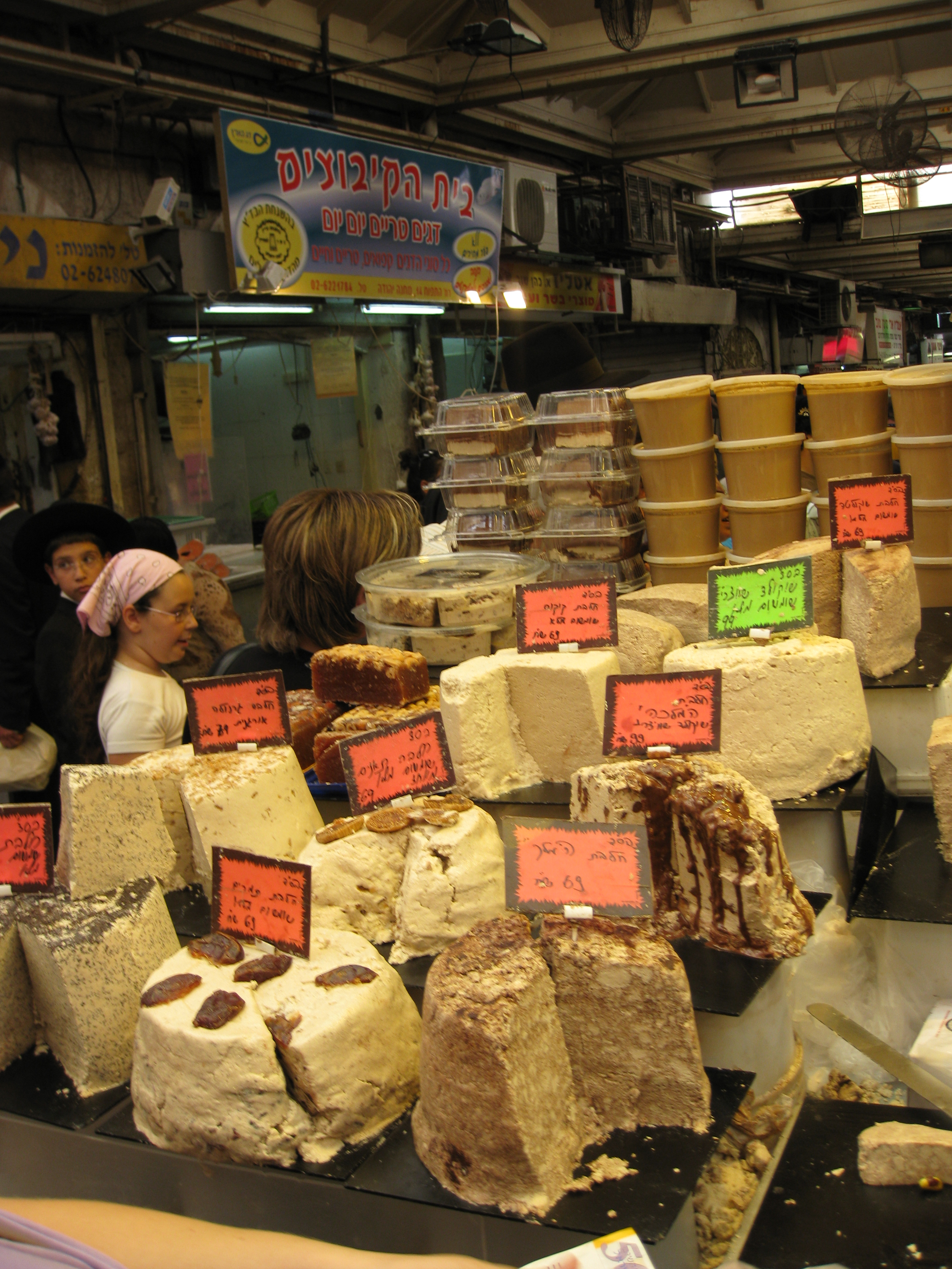 Halva in Mahneh Yehuda market